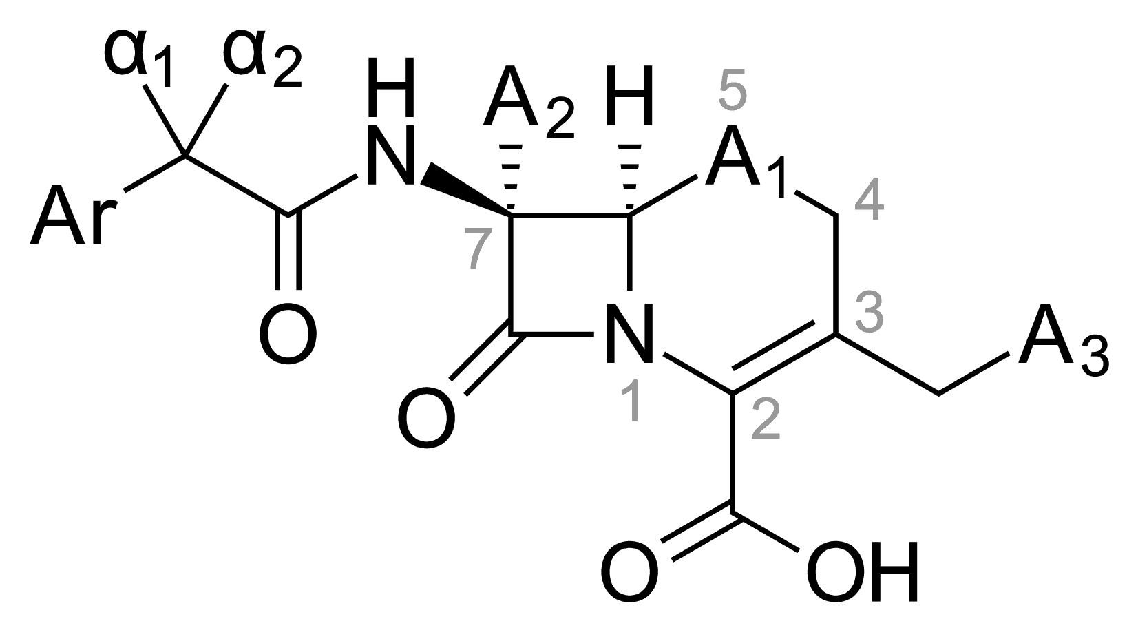 NewSAR